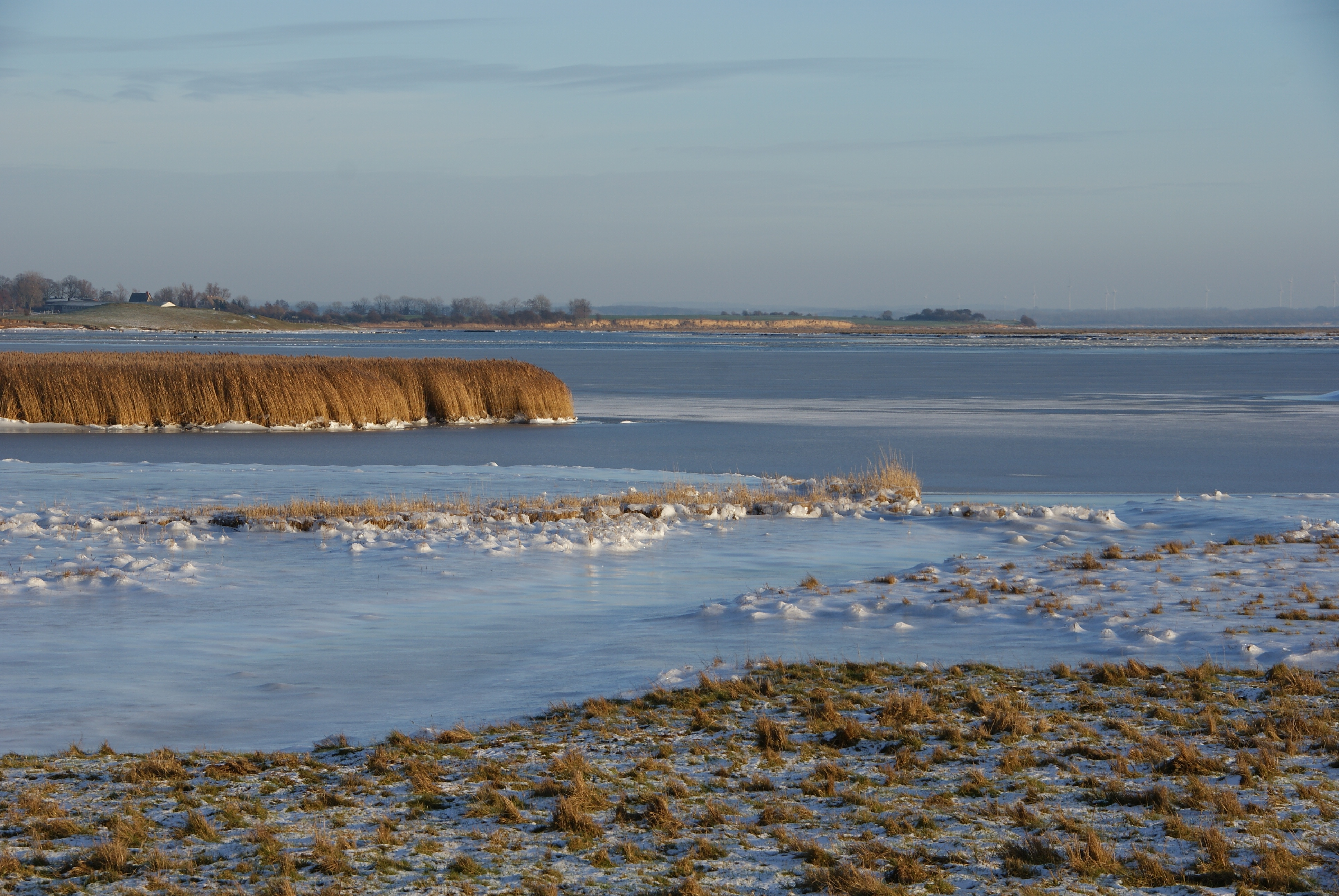 Poel Island (Germany), Baltic Sea, in winter